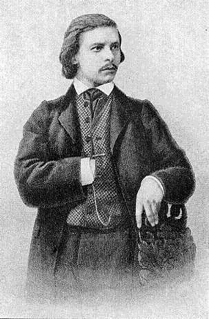 Carl Tausig - Project Gutenberg eText 16431